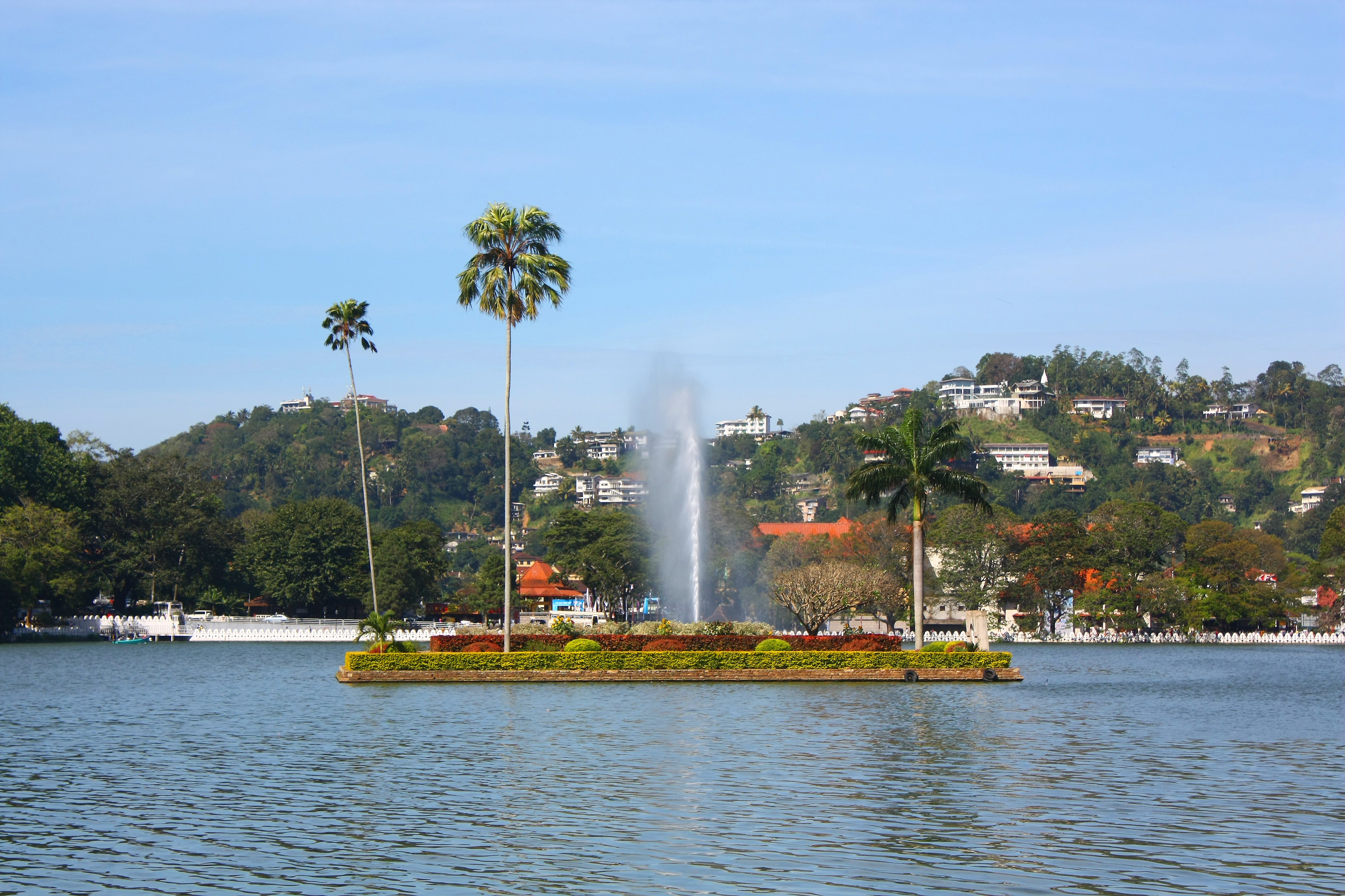 An island in Kandy lake